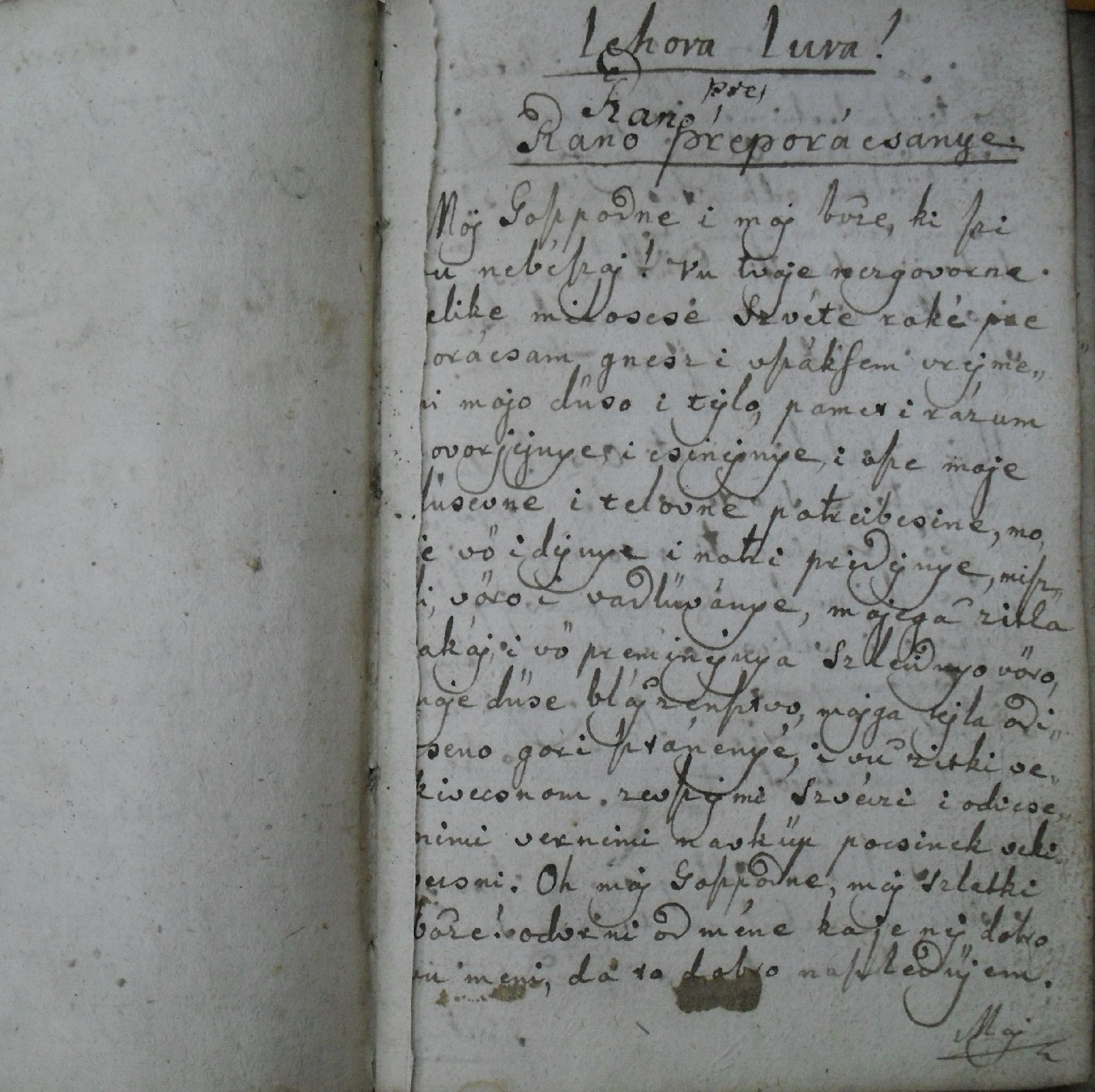 Handwritten prayer book in prekmurian language of Iván Fliszár from 1792